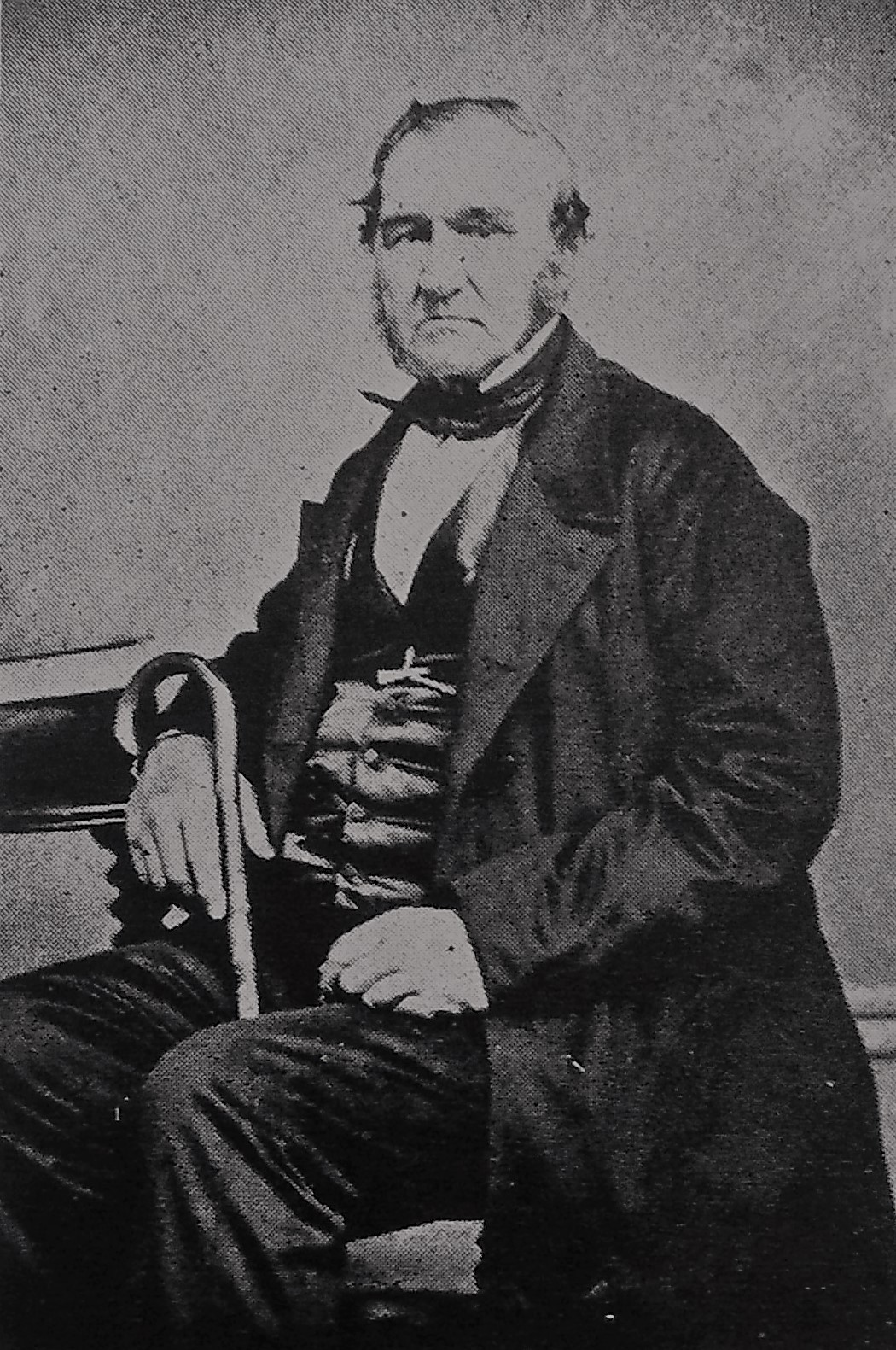 photo of Col. Charles S. Perley (1797-1879)